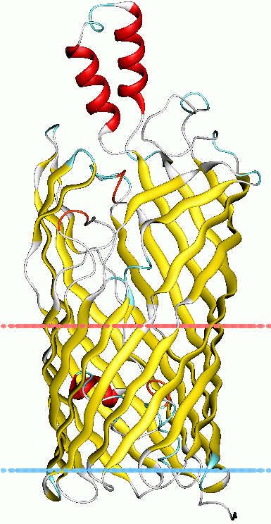 Protein image from OPM database